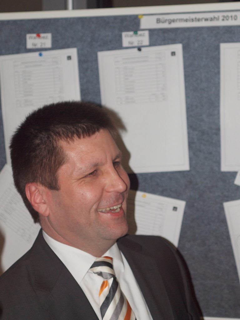 Thomas Fehling (Free Democratic Party), winner of election to Mayor of Bad Hersfeld at 21st of November 2010.